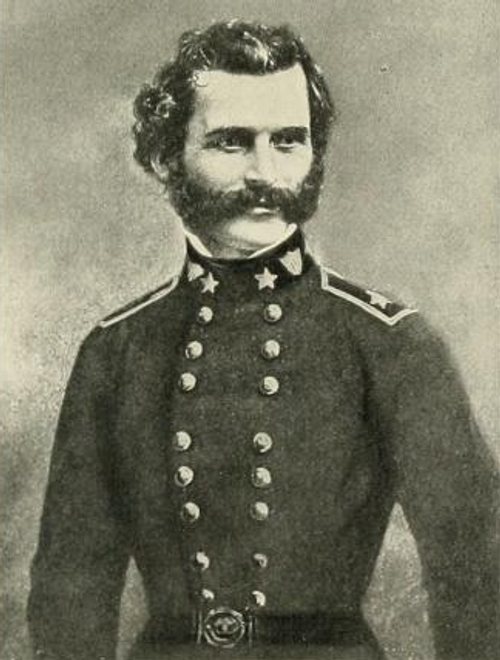 Gabriel J. Rains from The Photographic History of The Civil War in Ten Volumes: Volume Five, Forts and Artillery. The Review of Reviews Co., New York. 1911. p. 163.